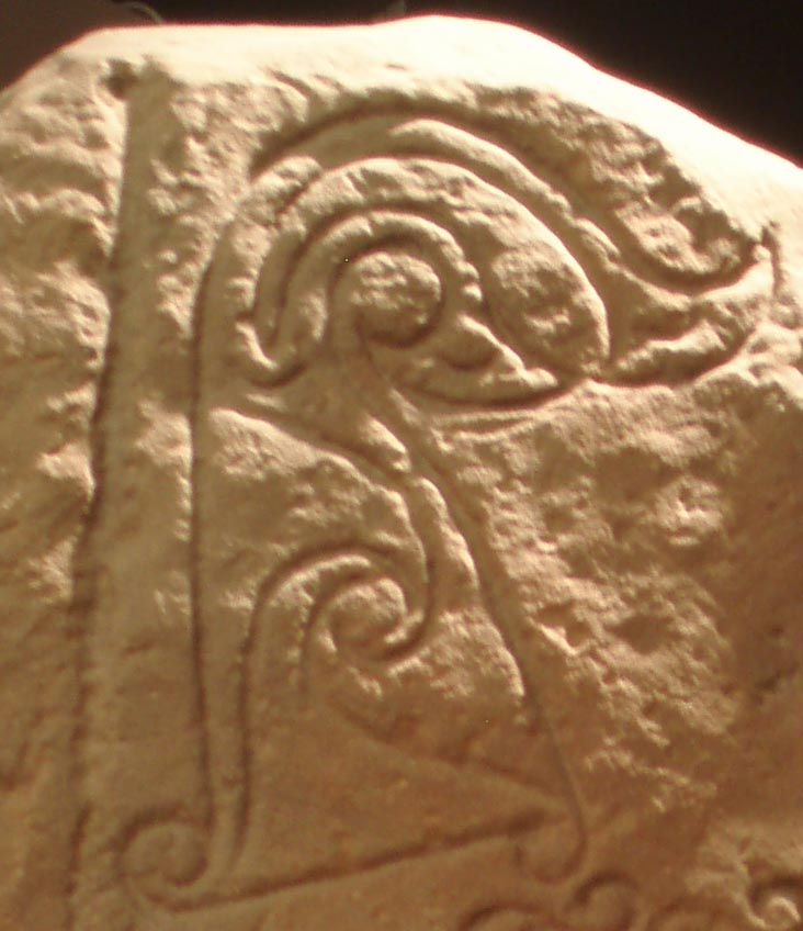 Pictish flower symbol. From Dunnichen stone